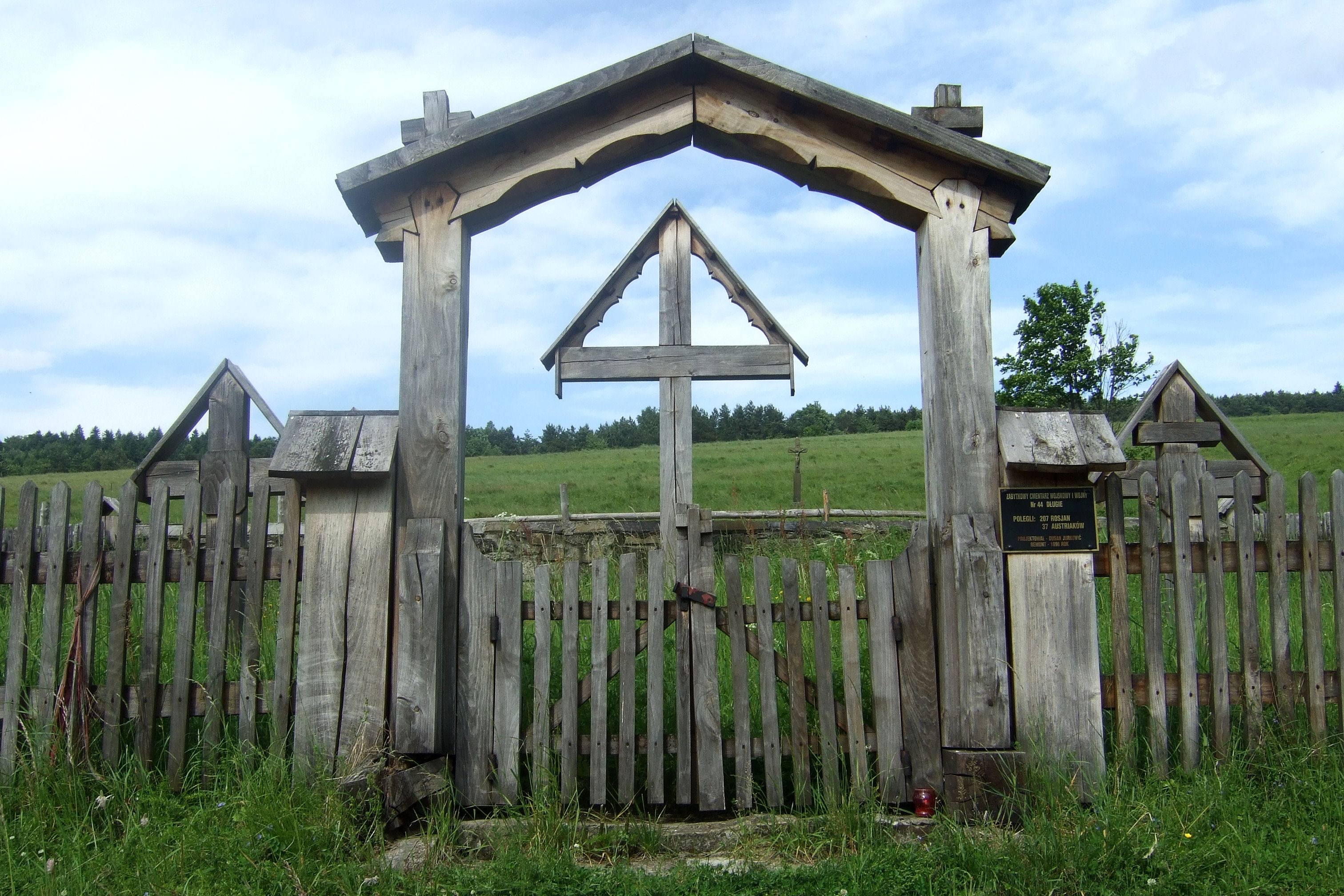 World War I cementery in Długie Poland